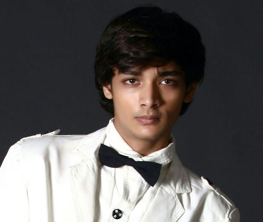 Ayush Tandon at a film studio